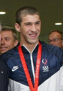 President George W. Bush poses for a photo with U.S. Olympic swimming gold medalist Michael Phelps during his visit Sunday, Aug. 10, 2008 to the National Aquatic Center in Beijing, where Phelps won his first Olympic gold medal in the men's 400 meter individual medley.